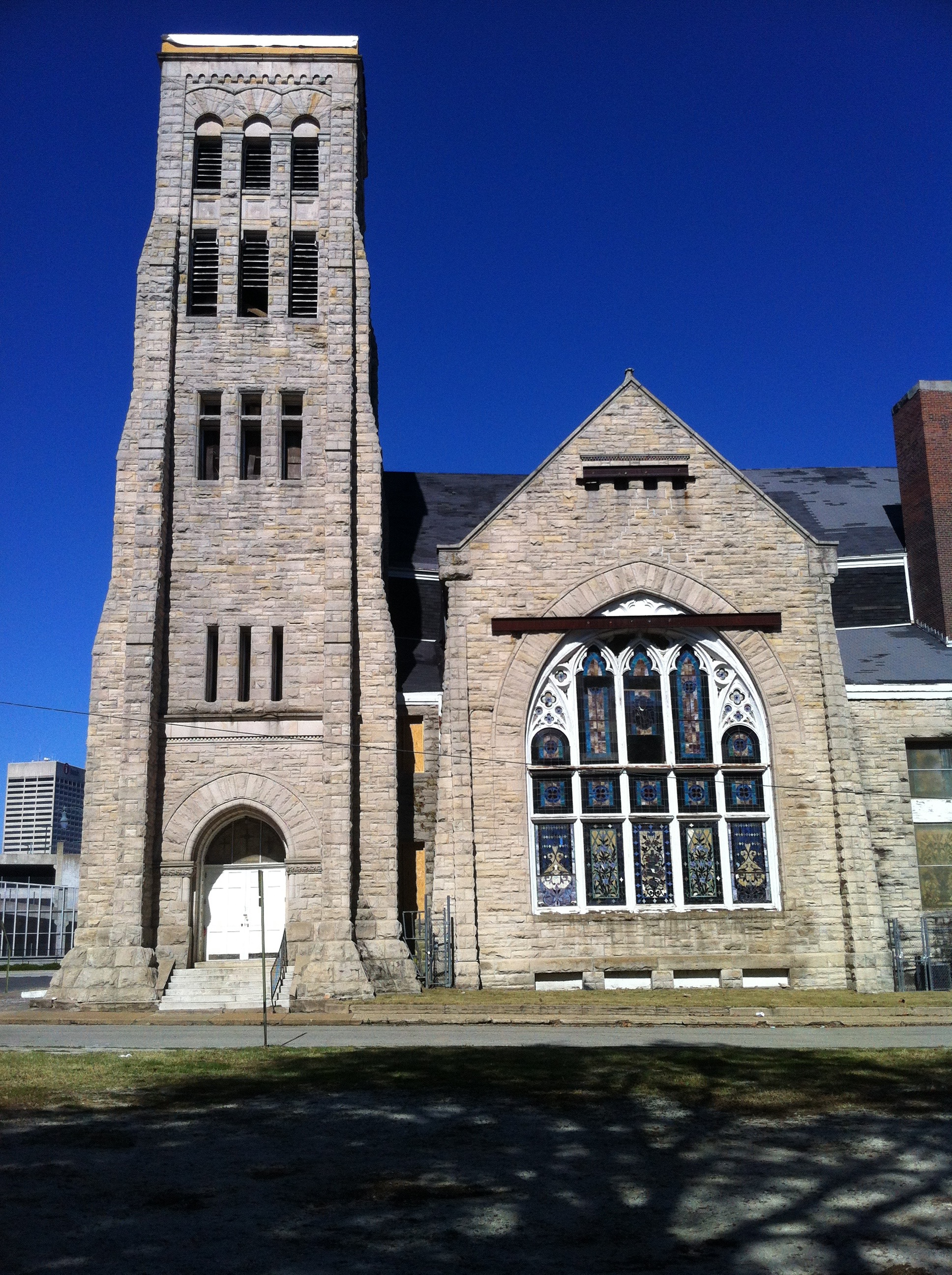 This photo was taken during the previtalization phase of the restoration process.